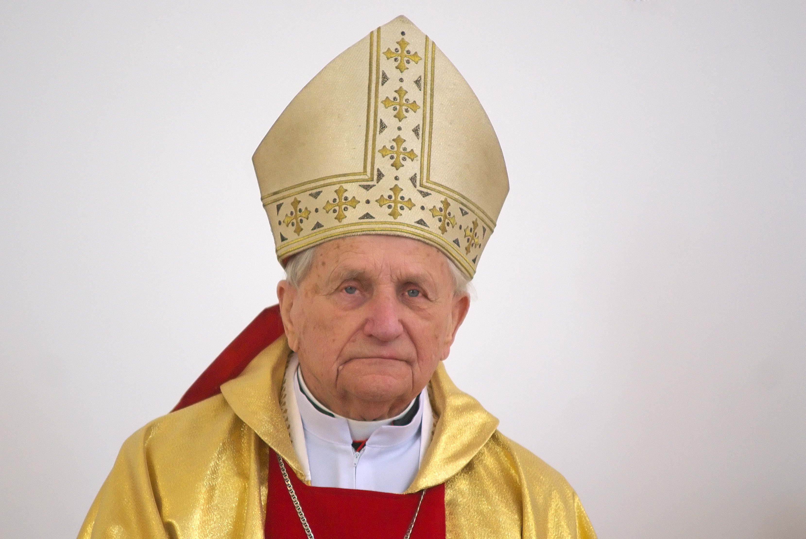 Cardinal Kazimier Sviontak